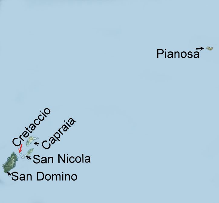 Map of Cretaccio_Tremiti